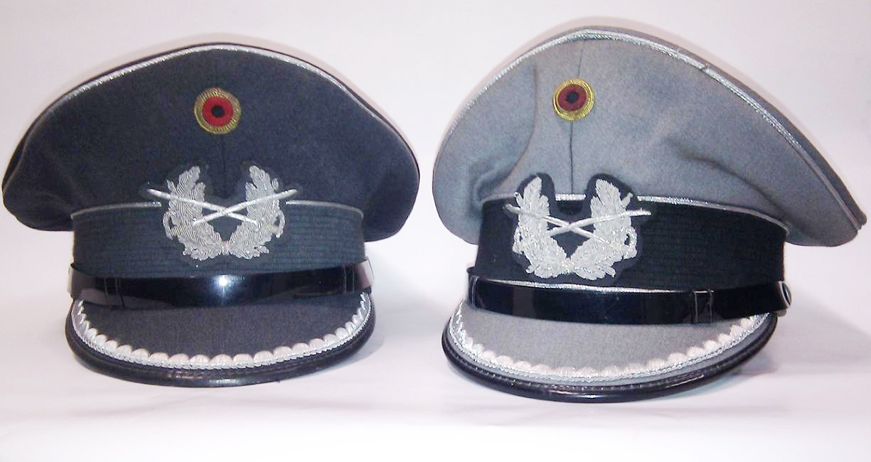 peaked caps of Bundeswehr army officers in the ranks from Leutnant up to Stabshauptmann (left: earlier model)